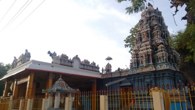 Thanjavurujjainimahakaliammantemple தஞ்சாவூர் உஜ்ஜயினிமாகாளியம்மன்கோயில்